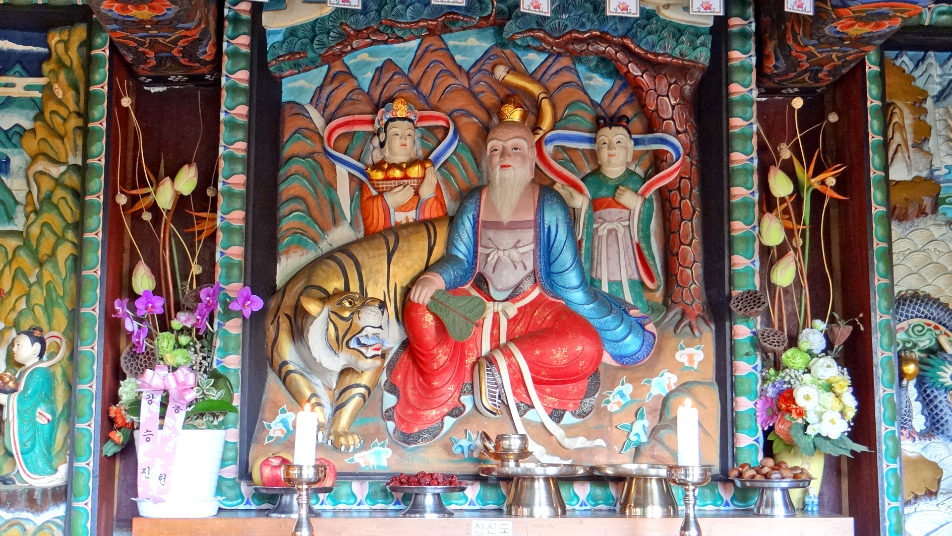 Jeonsusa Sansingak is the shrine to the Mountain Spirit. Jeongsusa Jeongsusa meaning clean water, clear the body and mind, because fresh water sprang up at the east side of the temple, was built by Priest Hoejeong CE 639, and was rebuilt by saint priest Hamheo Daesa in 1426.